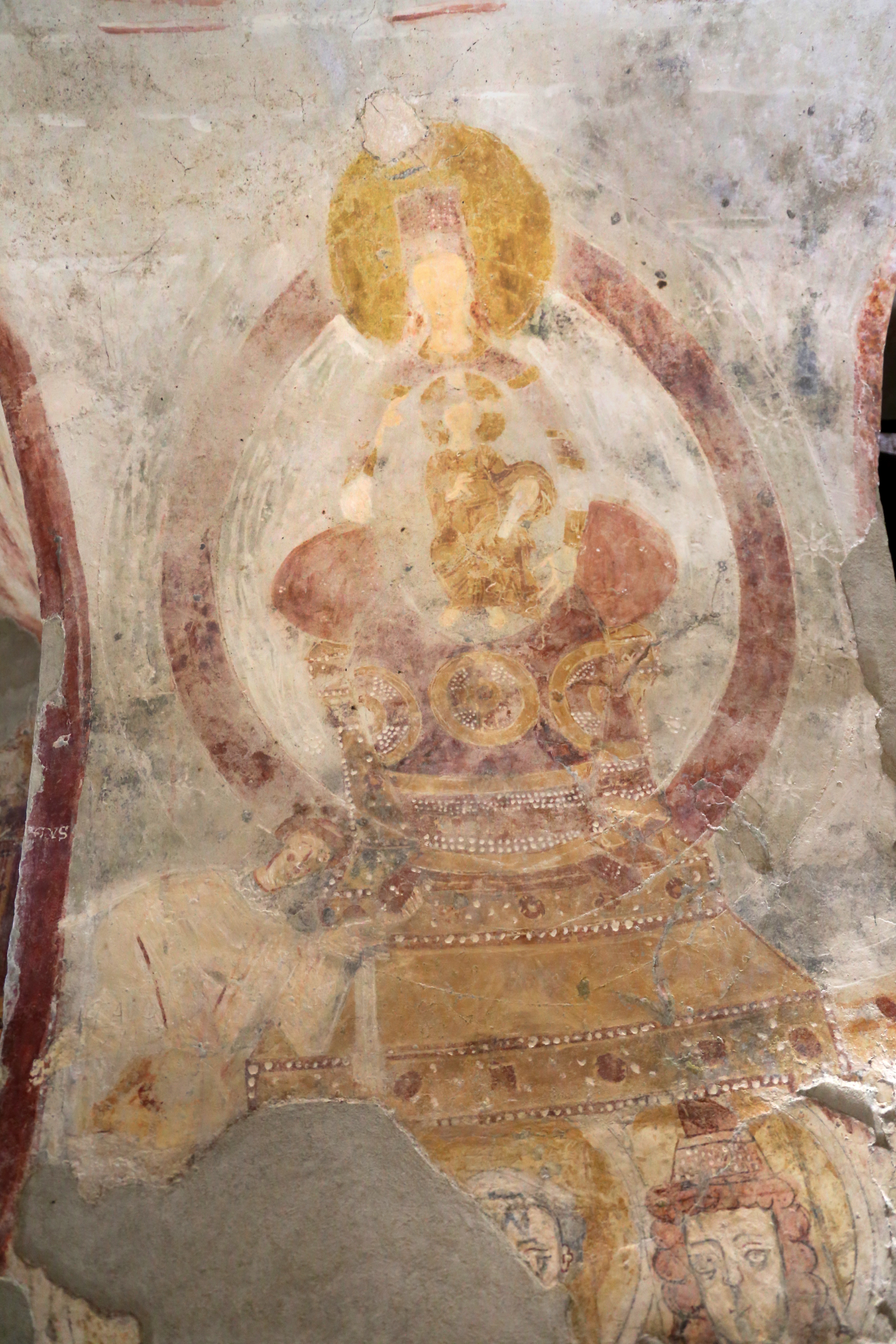 Epifanio Crypt